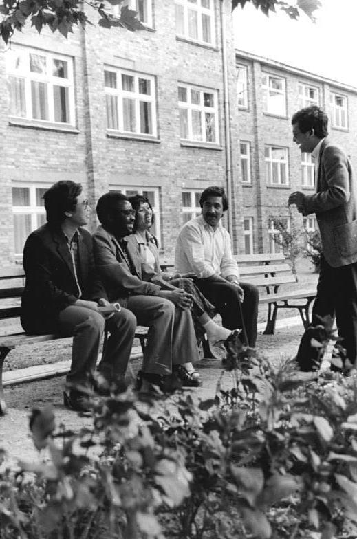 Bernau, visiting students at the trade union college ADN-ZB Settnik July 22, 1986, Frankfurt-Oder: Foreigner training at the trade union college "Fritz Heckert" - Not only the lessons and seminars are used by the foreign students to exchange experiences. Thung Ph'am (Vietnam), Chilambe Abilio (Mozambique), Meak Chanthan (Kampuchea) and Abdul Wahed (Afghanistan) like to consult with the assistant Dima Yim (Kampuchea) from the political economy department during the break (From left to right). The foreign students are not just learners during their stay in the GDR. They have partner classes at the university, to whom they give insights into the development of their countries in special courses. In the past 27 years around 3,300 trade unionists from over 90 countries have received training in Bernau. The course is financed by donations from the FDGB.